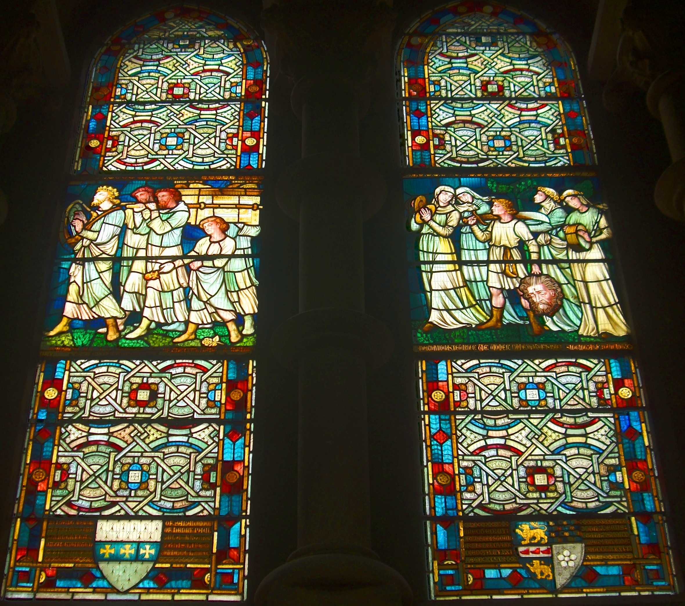 Windows at St Finbarr's Cathedral